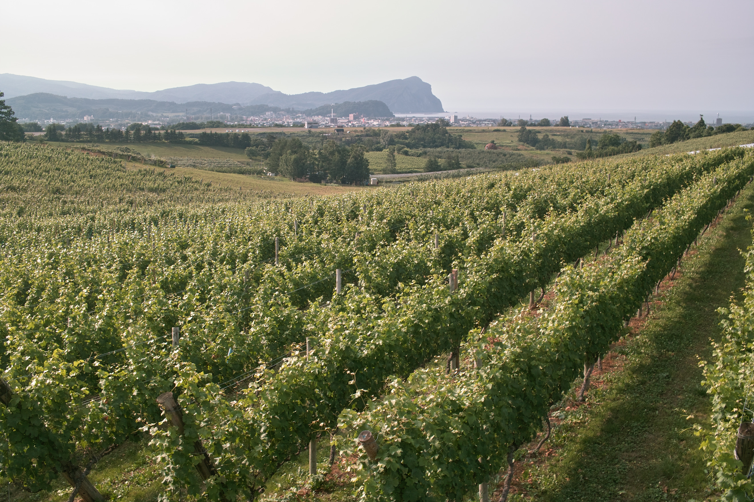 Nobori district in Yoichi, Hokkaido Japan